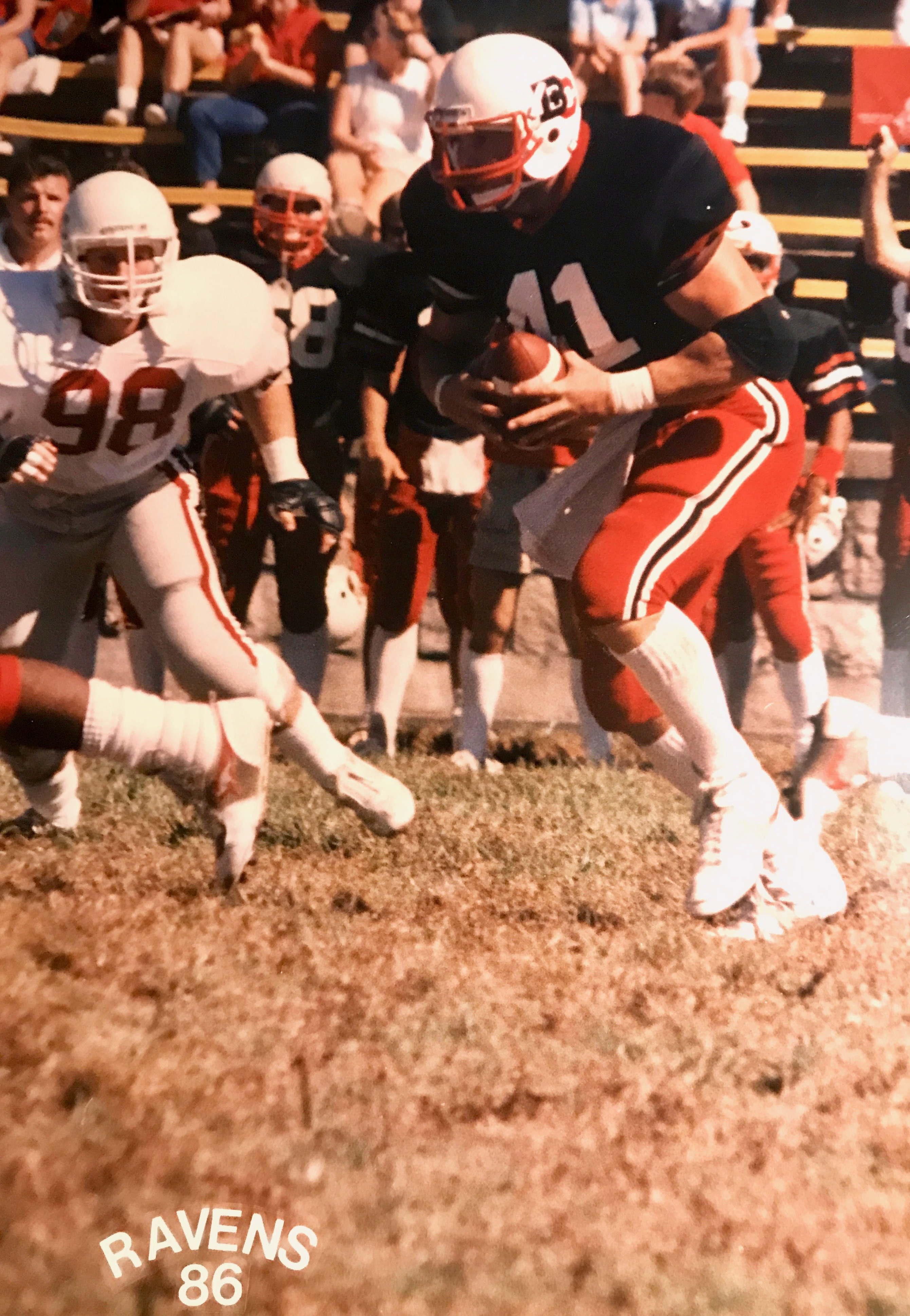 Mueller Raven Football 86